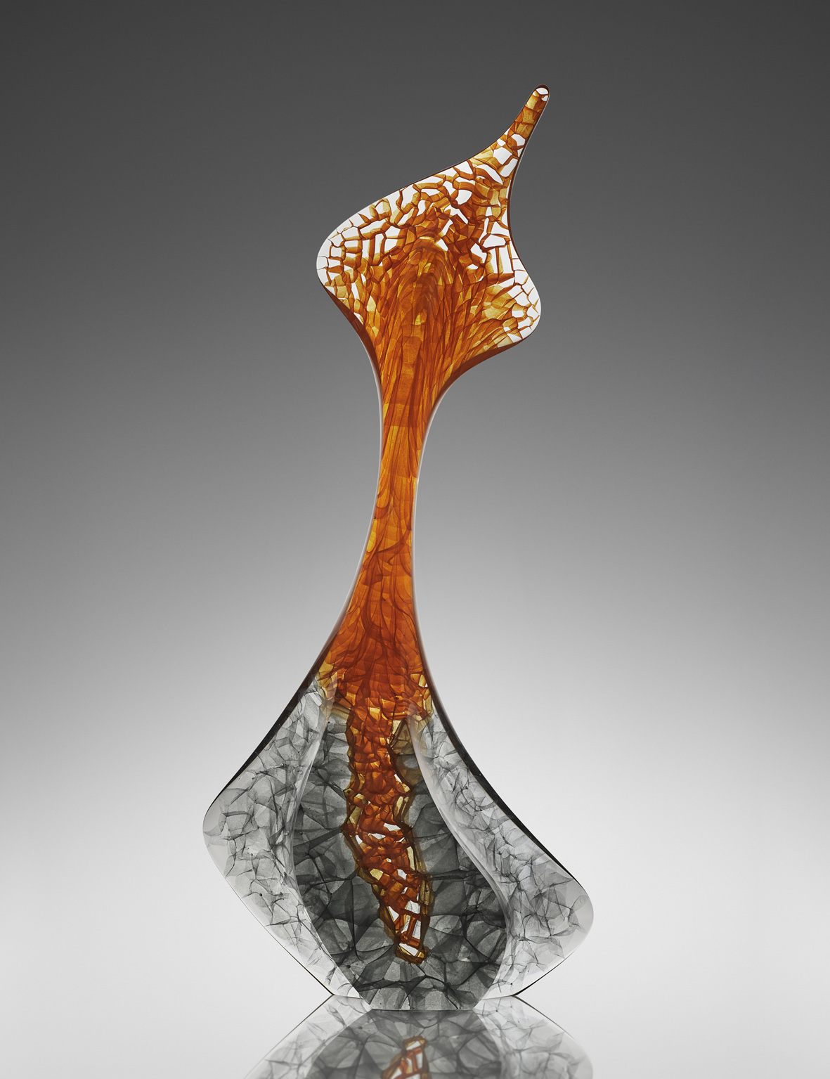 Michael Behrens, Seaform 298, 2019, 124 x 54 x 20 cm, photo Norbert Heyl